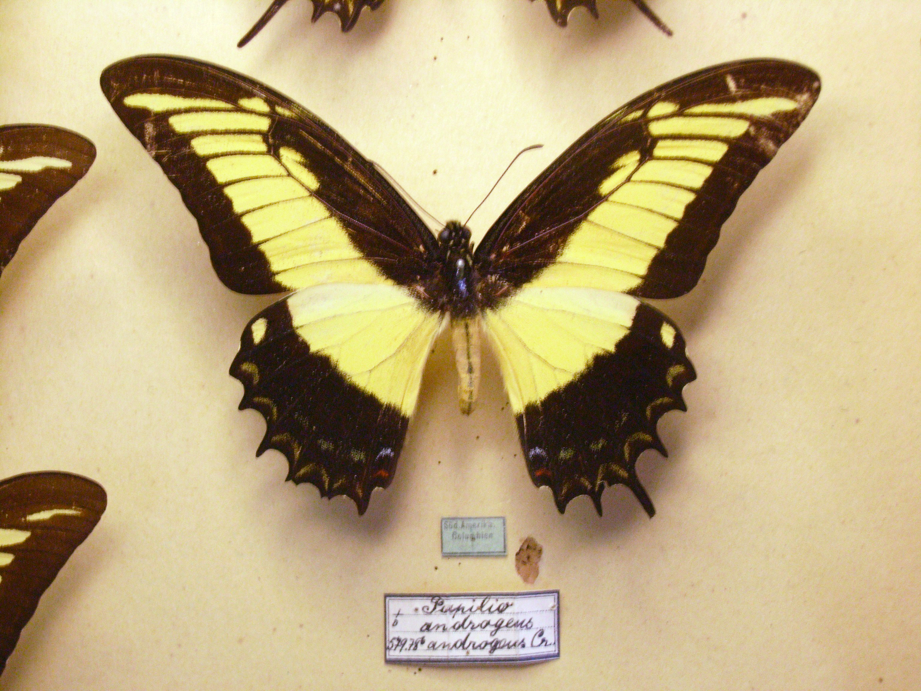 Papilio androgeos Male Papilionidae